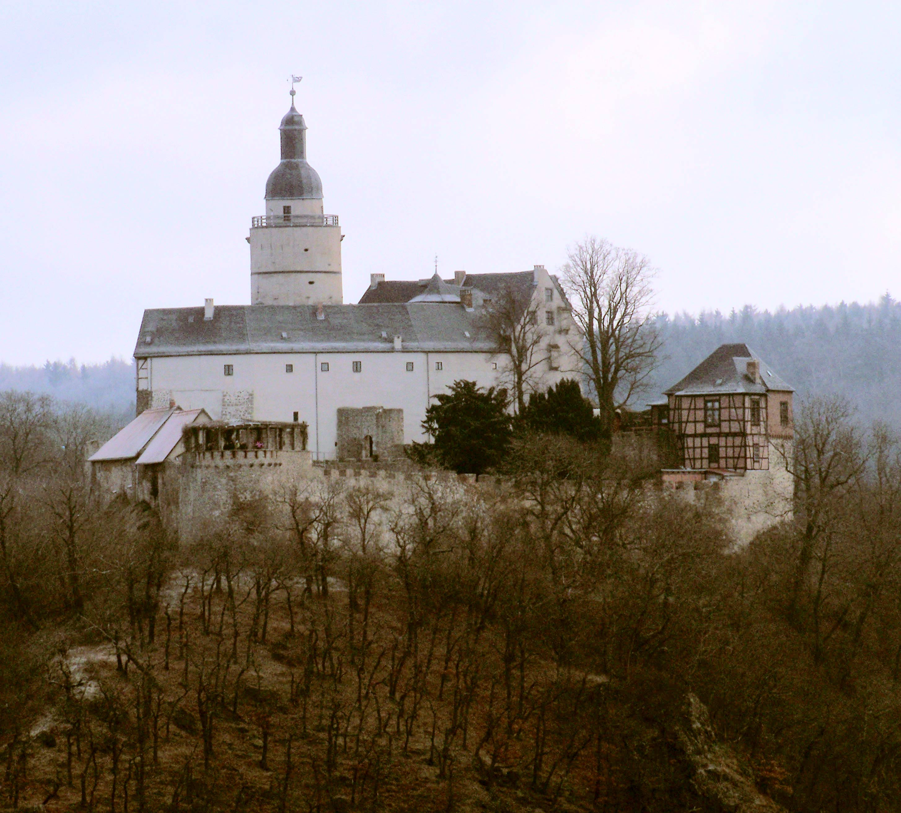 Falkenstein Castle, Saxony-Anhalt, Germany